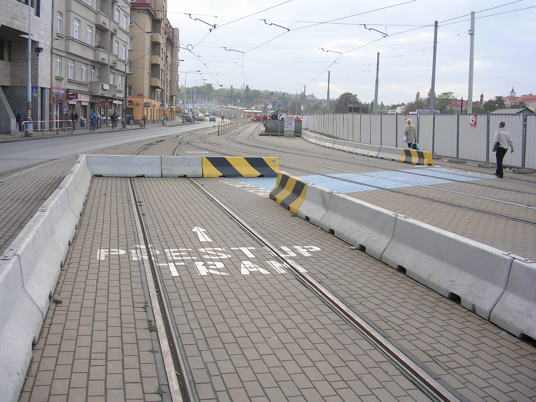 Dejvice and Hradčany, Prague, the Czech Republic.